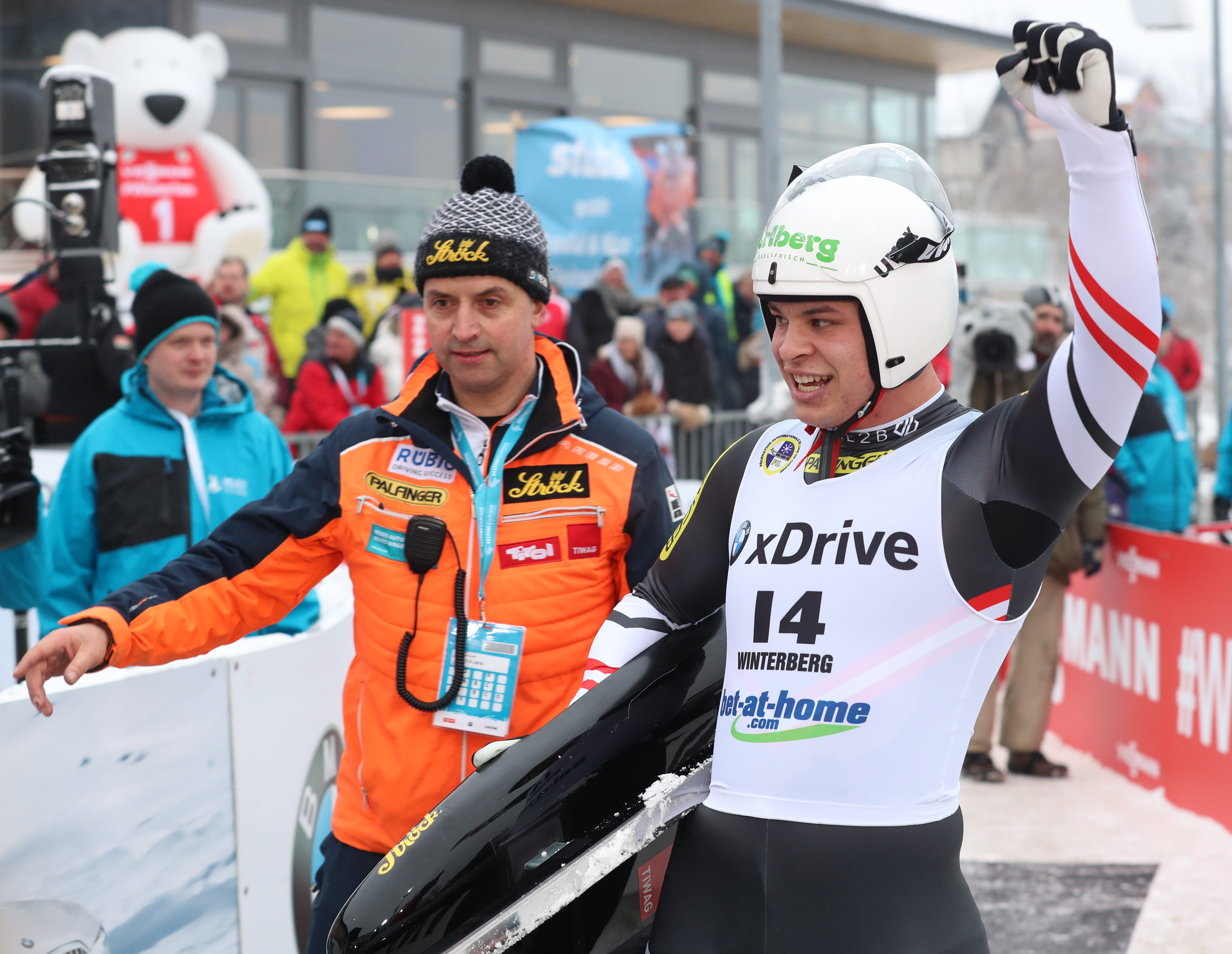 Men's Sprint World Championships at the FIL World Luge Championships 2019 in Winterberg